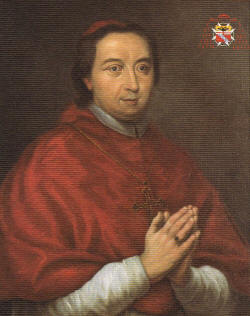 Camillo Cybo (Cibo) in 1729 at the time of his elevation to Cardinal